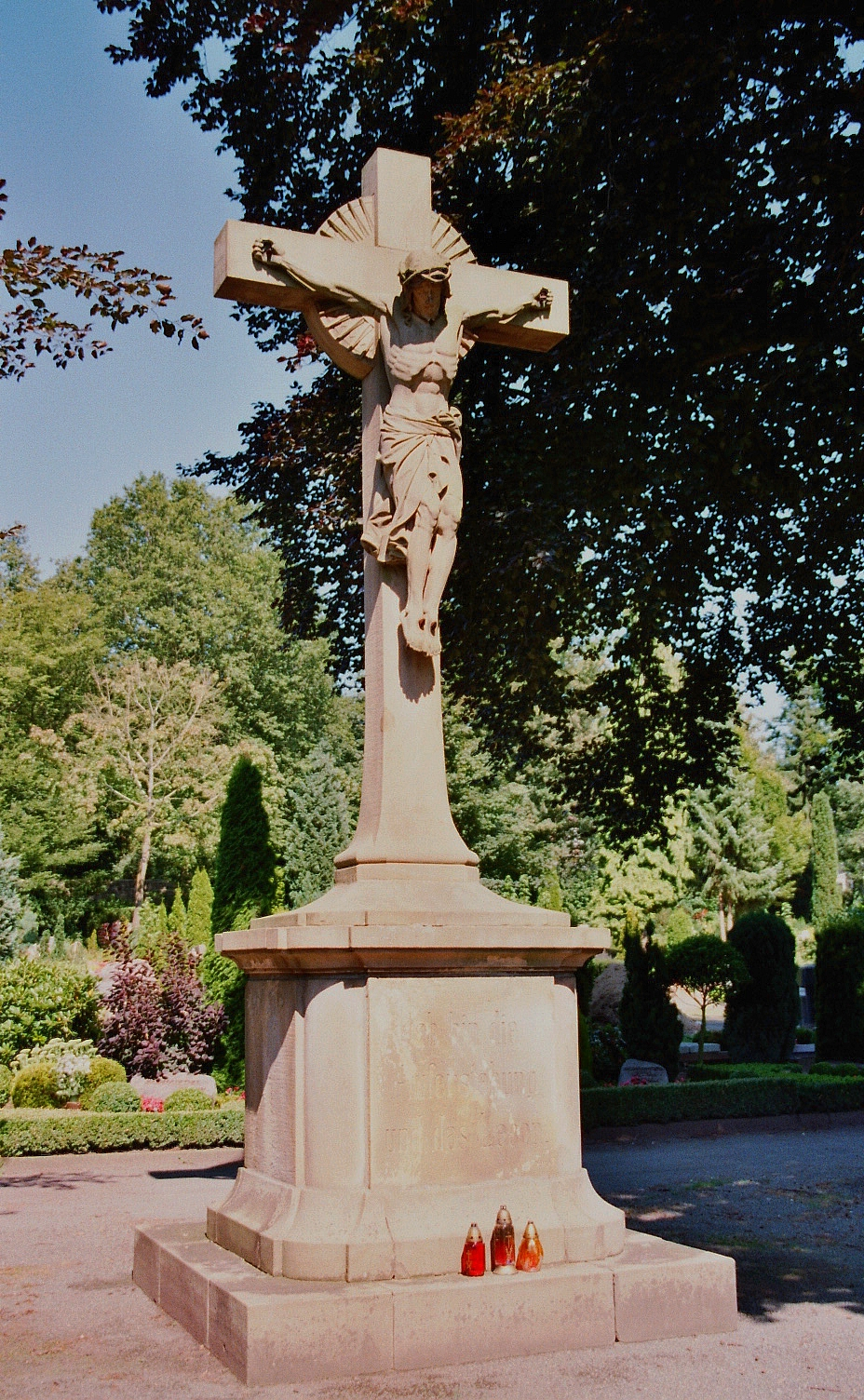 Cemetery cross of the Central Cemetery (Zentralfriedhof) in Ibbenbüren, Kreis Steinfurt, North Rhine-Westphalia, Germany. It is a listed cultural heritage monument.